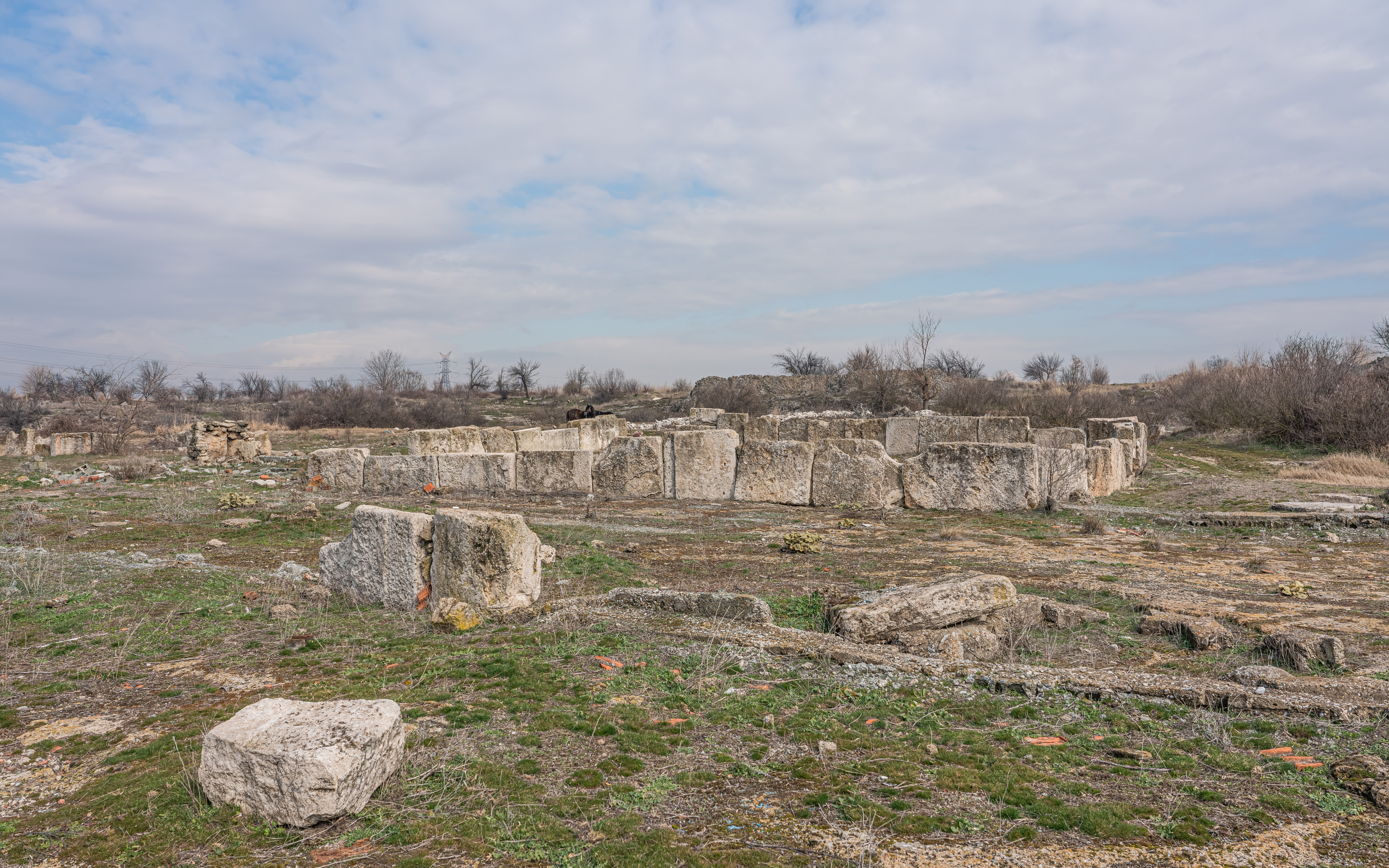 Remains of the ancient city of Colossae near Denizli, Turkey